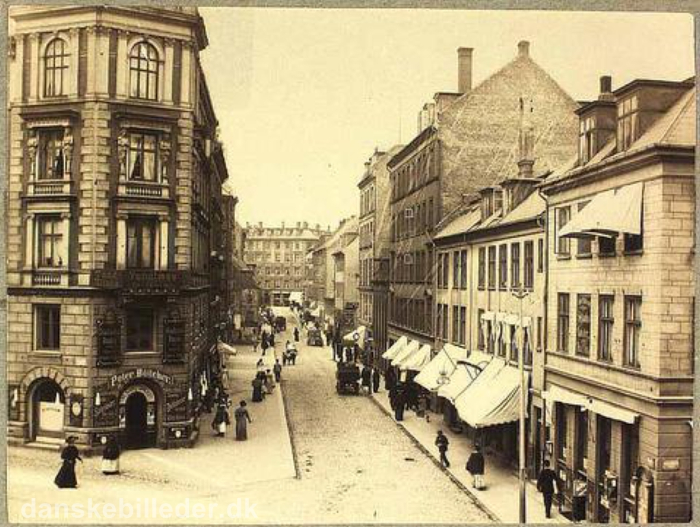 Old post Card showing Værnedamsvej as seen from Vesterbrogade towards Gammel Kongevej in Copenhagen, Denmark